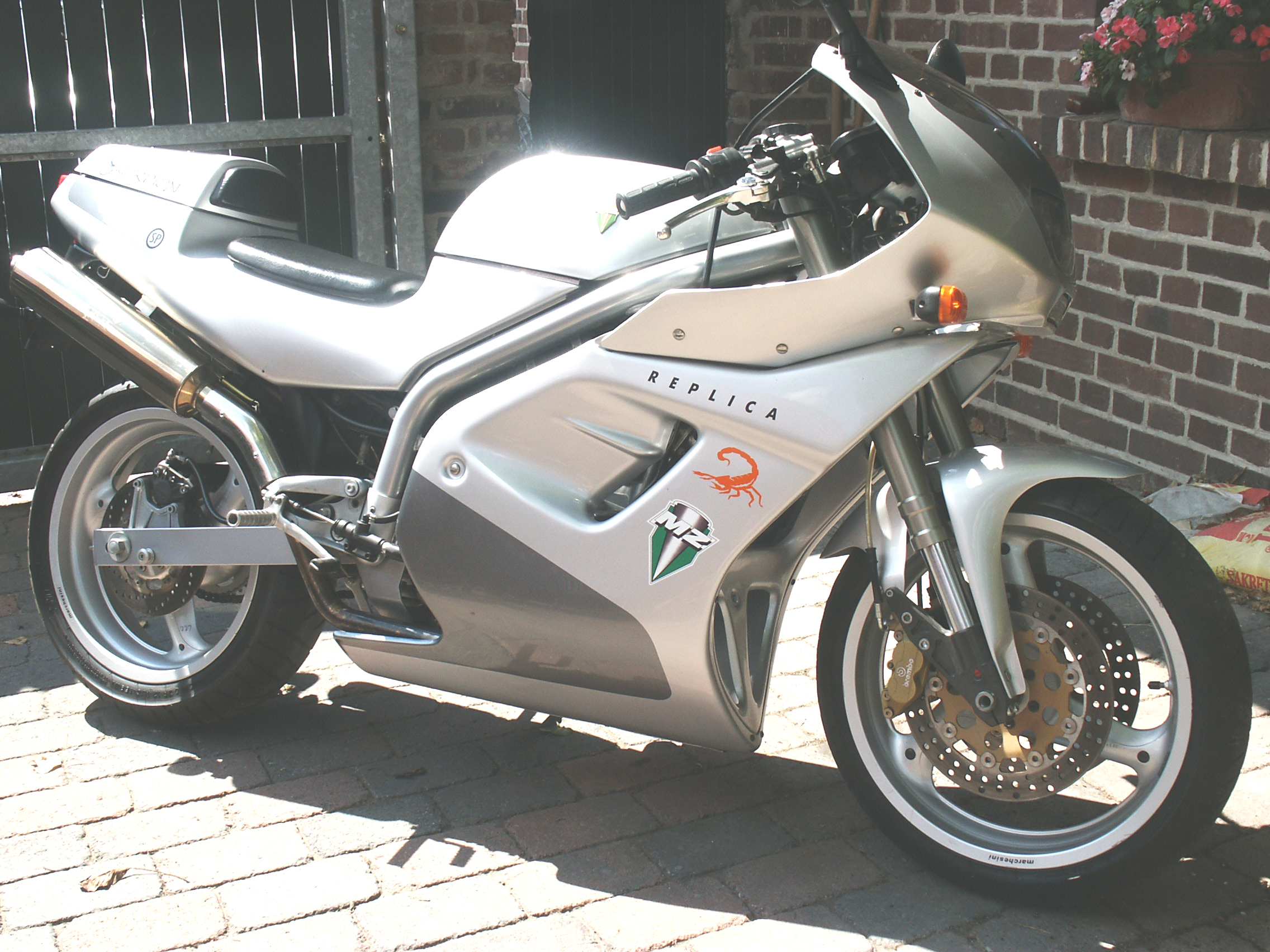 MZ Skorpion Replica